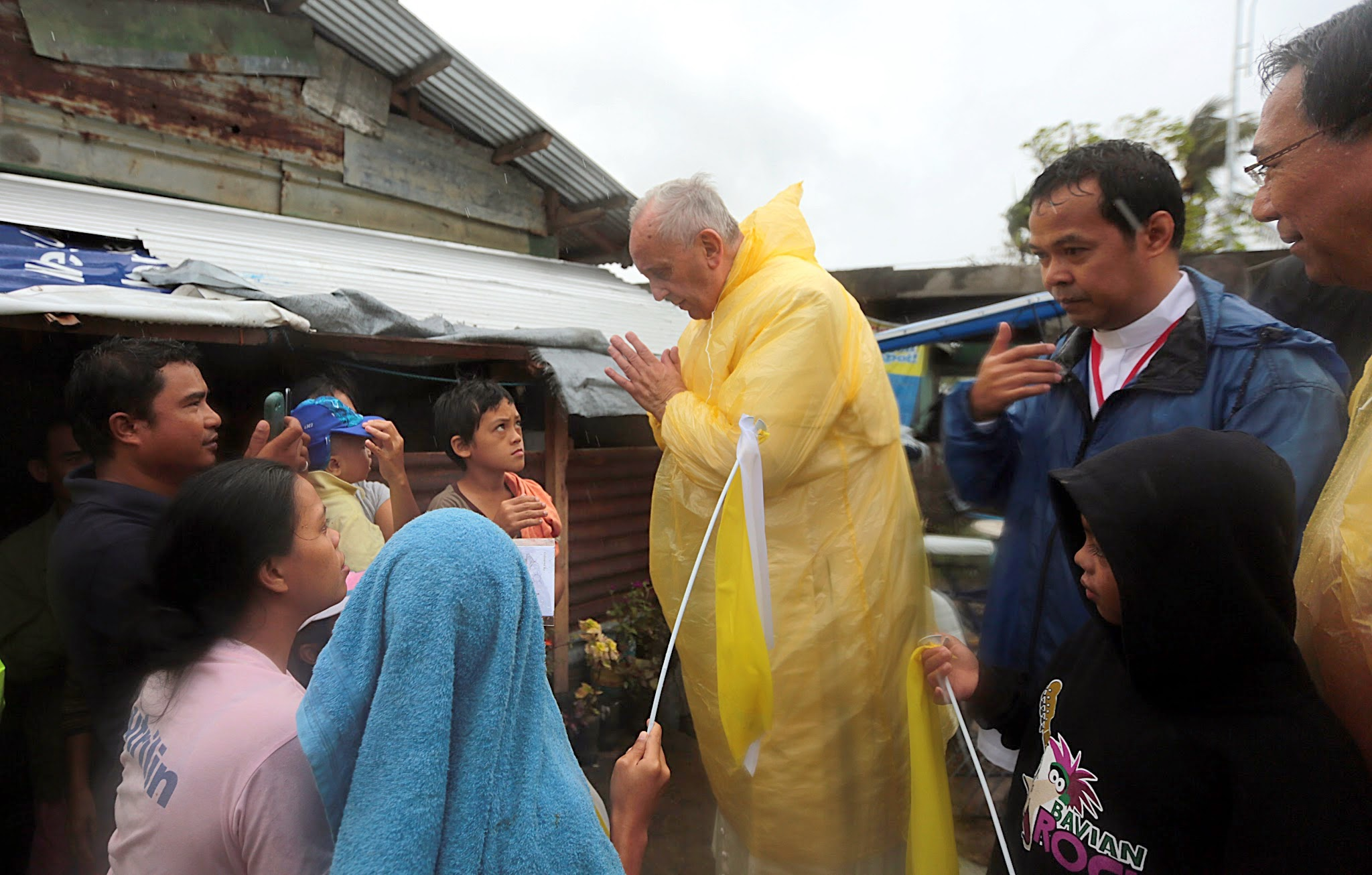 Pope Francis visits the Typhoon Yolanda victims in one of the areas in Palo, Leyte earlier today, January 17, 2015.